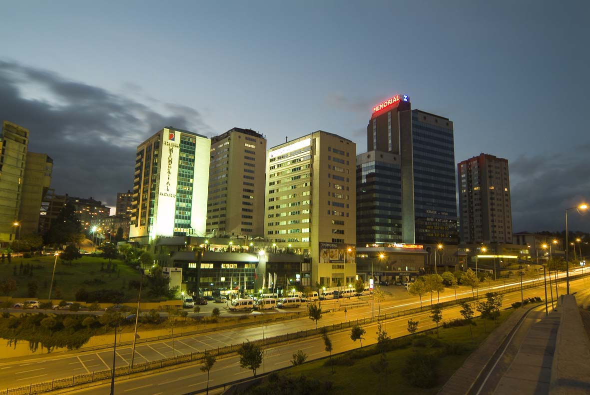 Memorial Hospital, Okmeydanı.